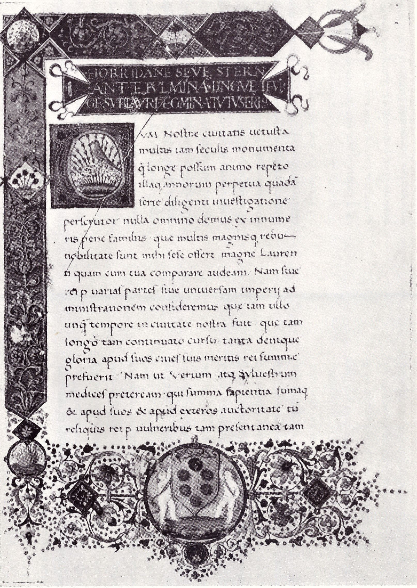 The first page of the dialogue De vera nobilitate in the manuscript Rome, Accademia Nazionale dei Lincei, Biblioteca Corsiniana, 36 E 5, fol. 1r.